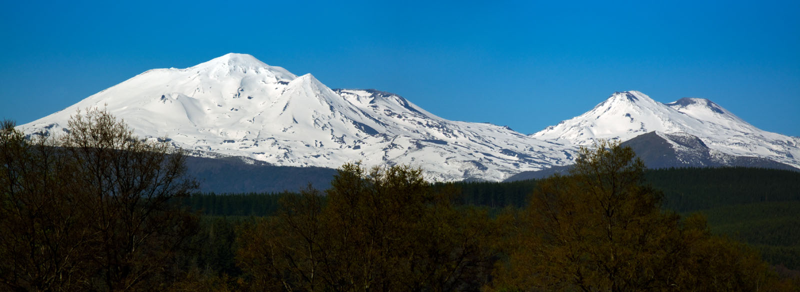 The Nevados the Chillán volcanic complex contains at least the following eruptive centers: Santa Gertrudis, Volcán Blanco (Nevado), volcán Calfú, volcán Pichicalfú, volcán Nuevo, volcán Arrau, volcán Viejo and volcán Parador. Elevation: 3.212 m